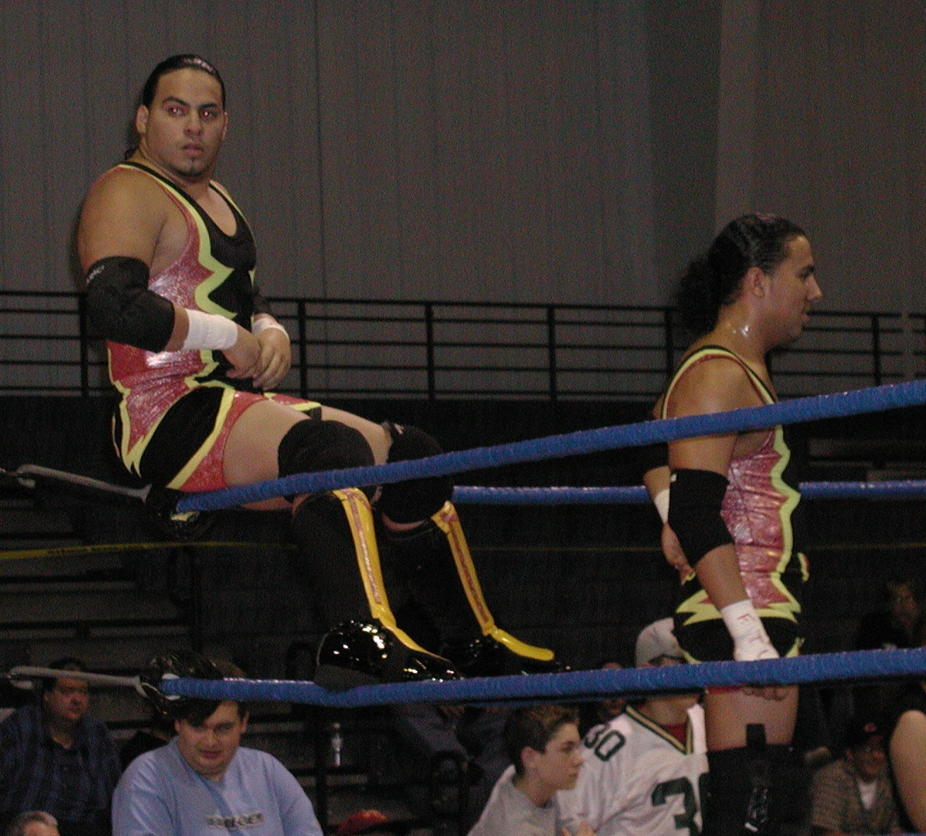 The S.A.T. at an independent wrestling show on October 262002 in Grayslake, IL.